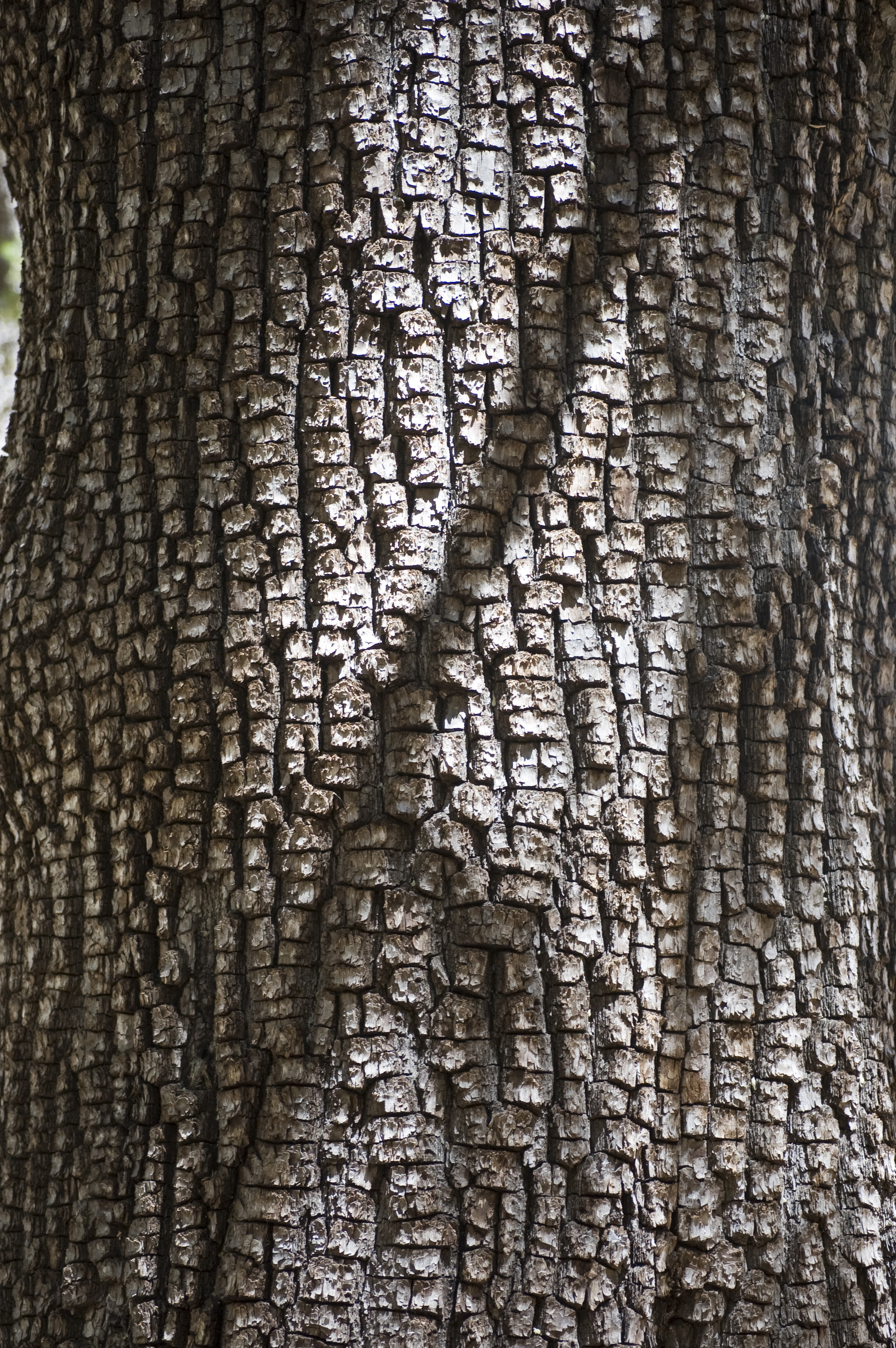 Juniperus deppeana bark, Madera Canyon, Coronado National Forest, Arizona.